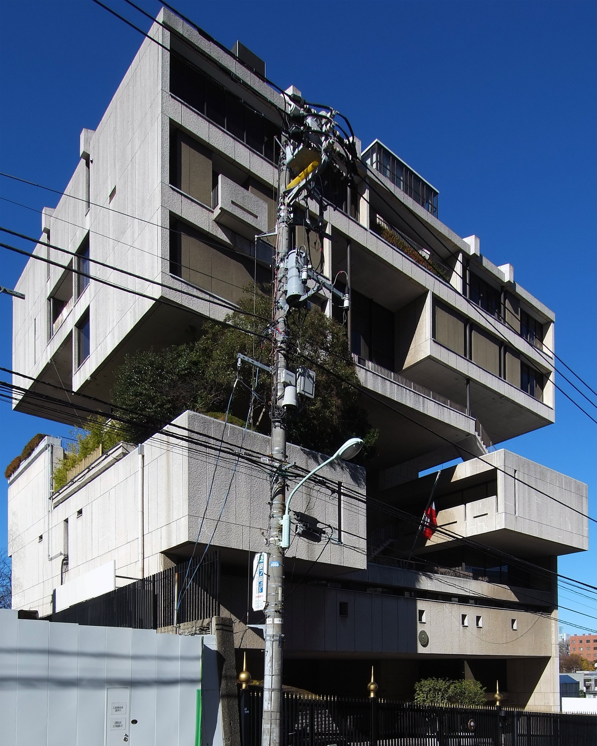 Kuwait Embassy and Chancellery of Japan, at Mita Tokyo Japan, design by Kenzo Tange in 1970.